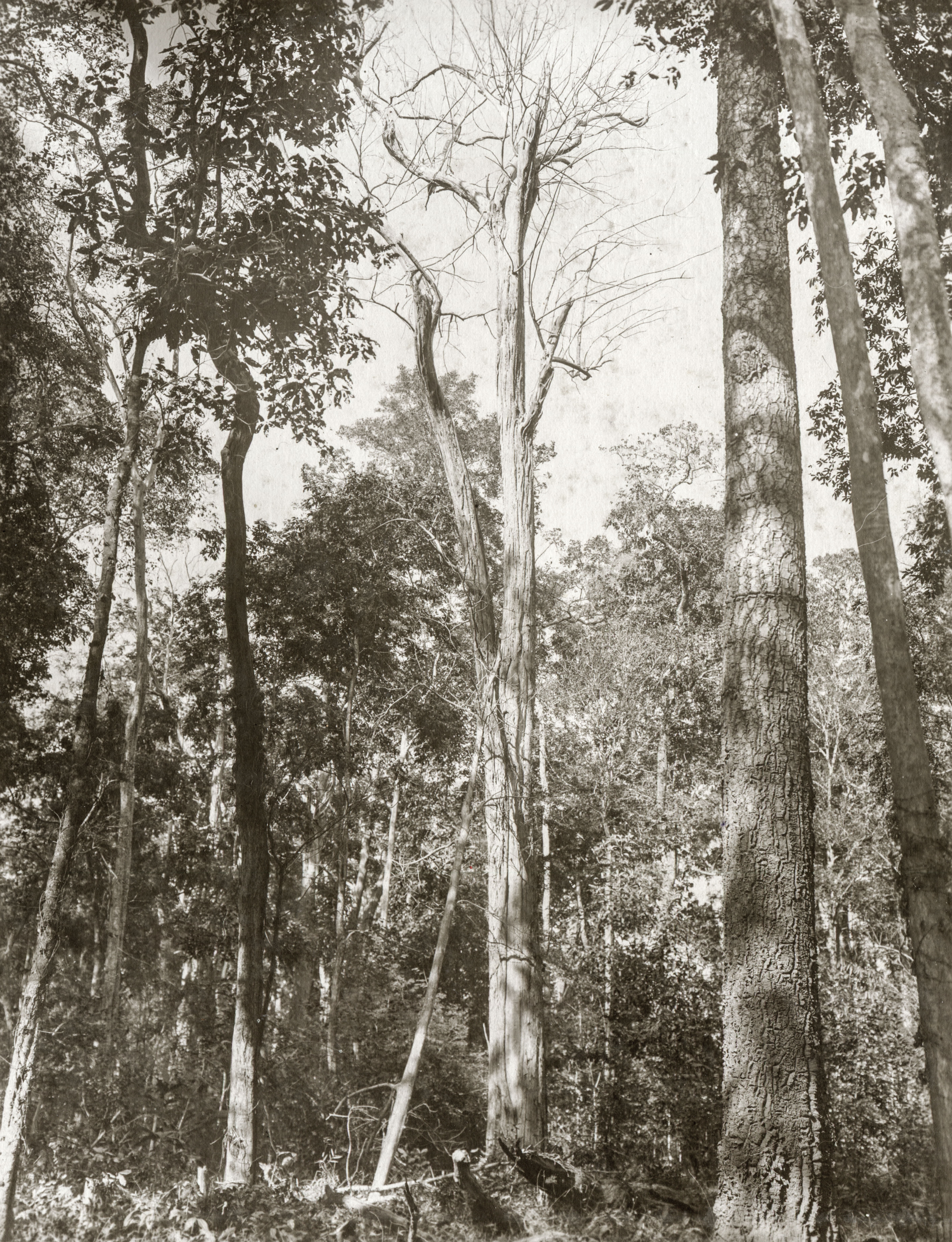 Taken by Mr. P Mashall, Manager of Bombay Burma Trading Corporation